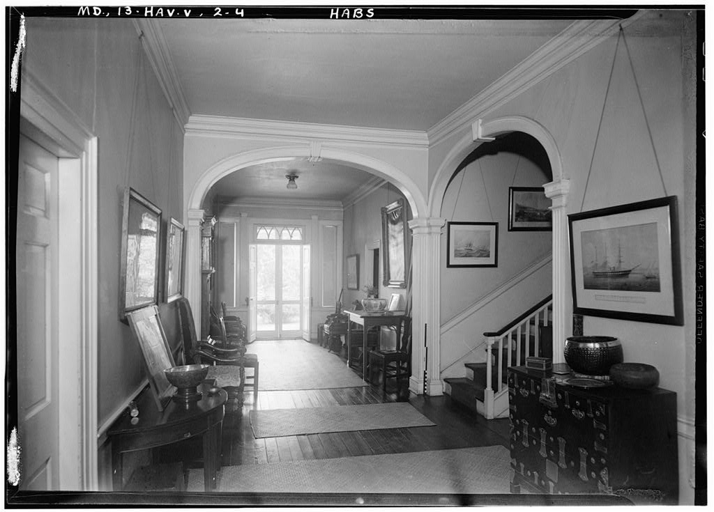 Historic American Buildings Survey E. H. Pickering, Photographer September 1936 1ST. FLOOR HALL. - Sion Hill, 2026 Level Road, Havre de Grace, Harford County, MD